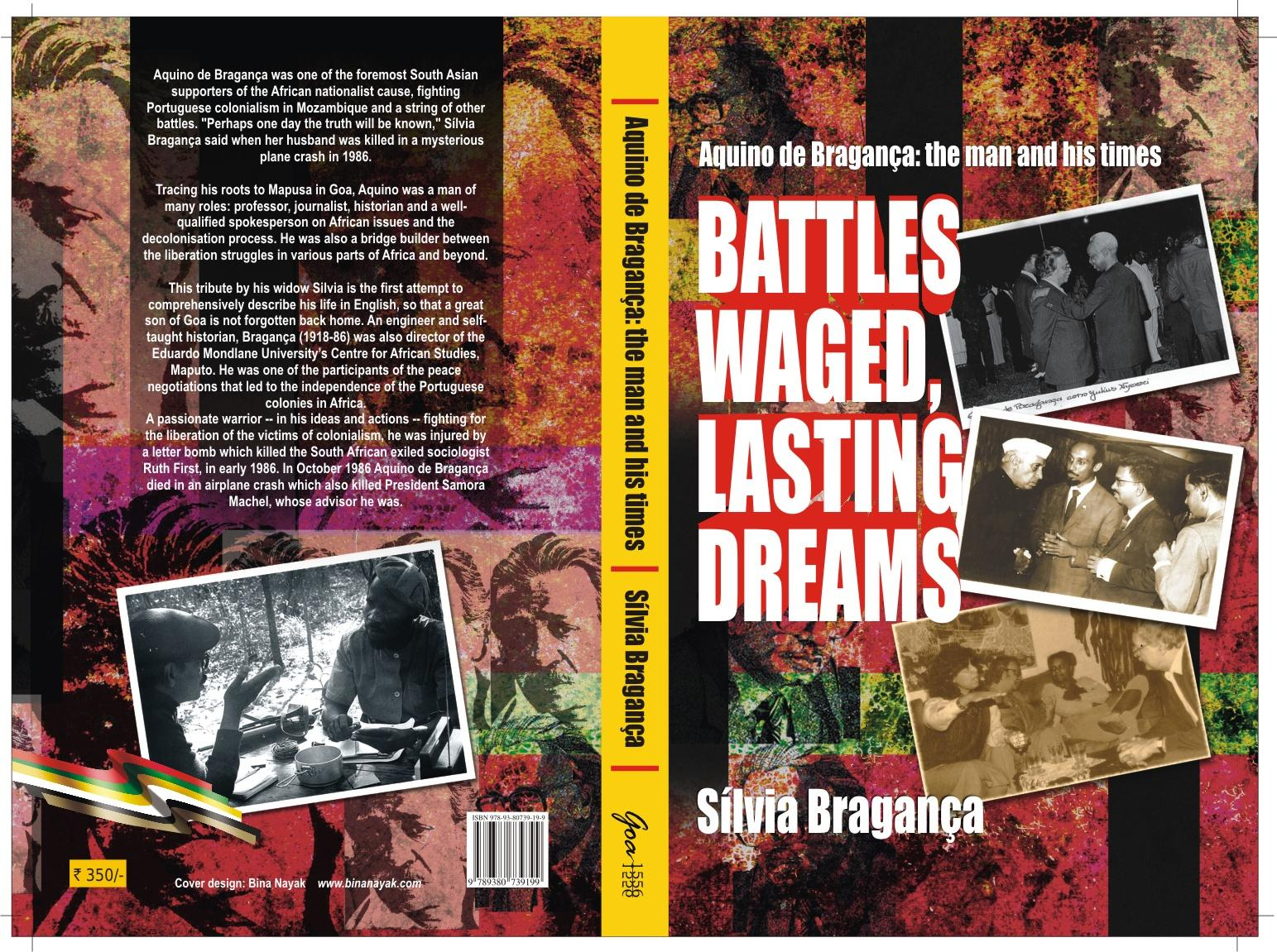 Cover of the book with permission for release from the publisher.